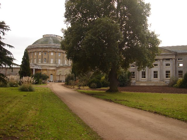 Ickworth House - the Rotunda and West Wing